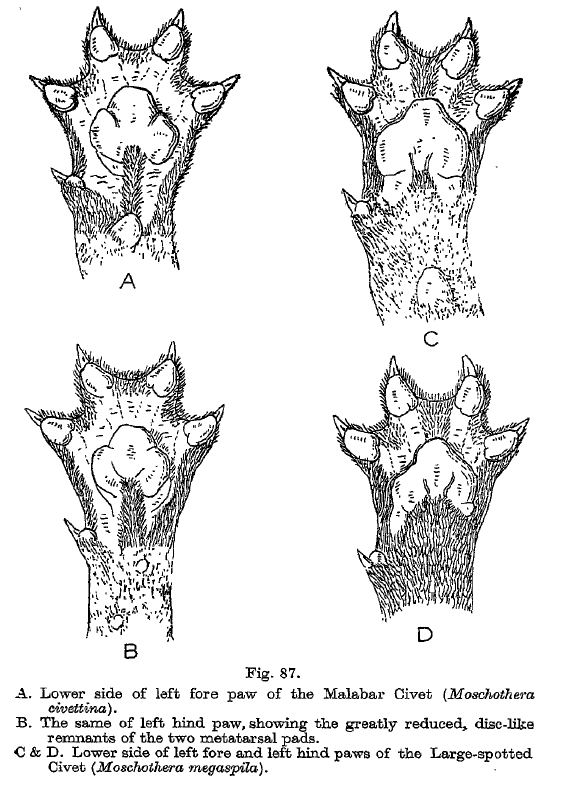 Paws of a large spotted civet and a malabar spotted civet